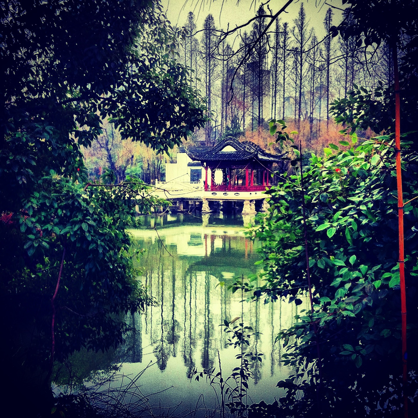 Fuzhuang in winter